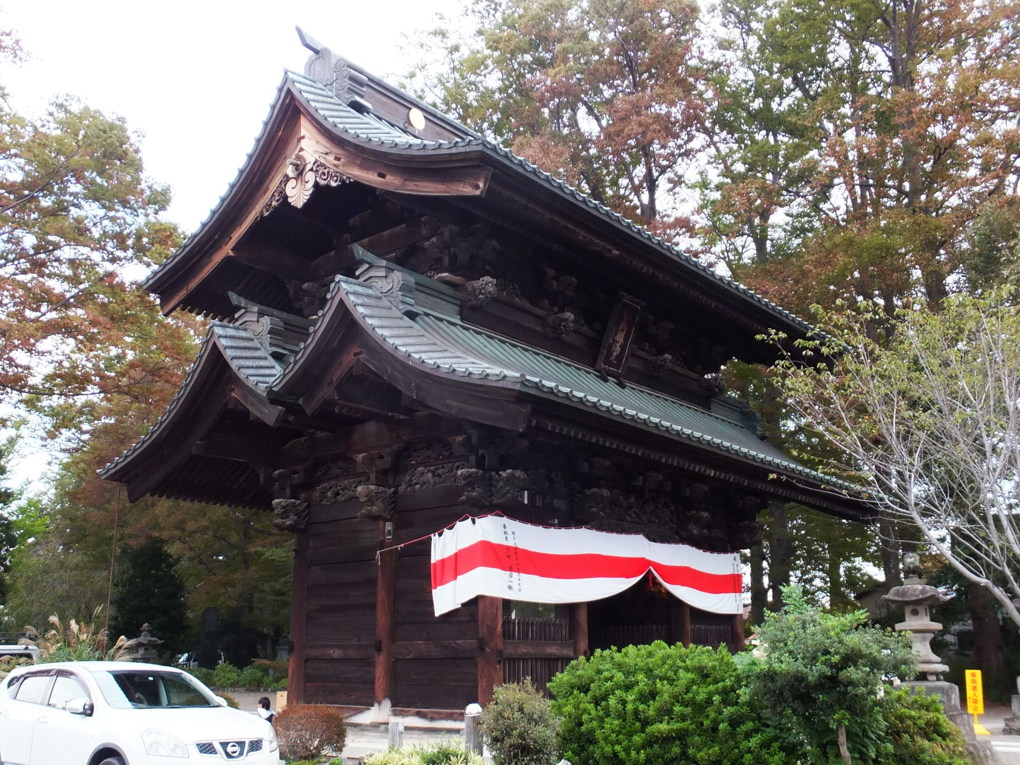 The Kisō-mon gate of Kangi-in temple (Menuma Shōden) in Kumagaya, Saitama Prefecture